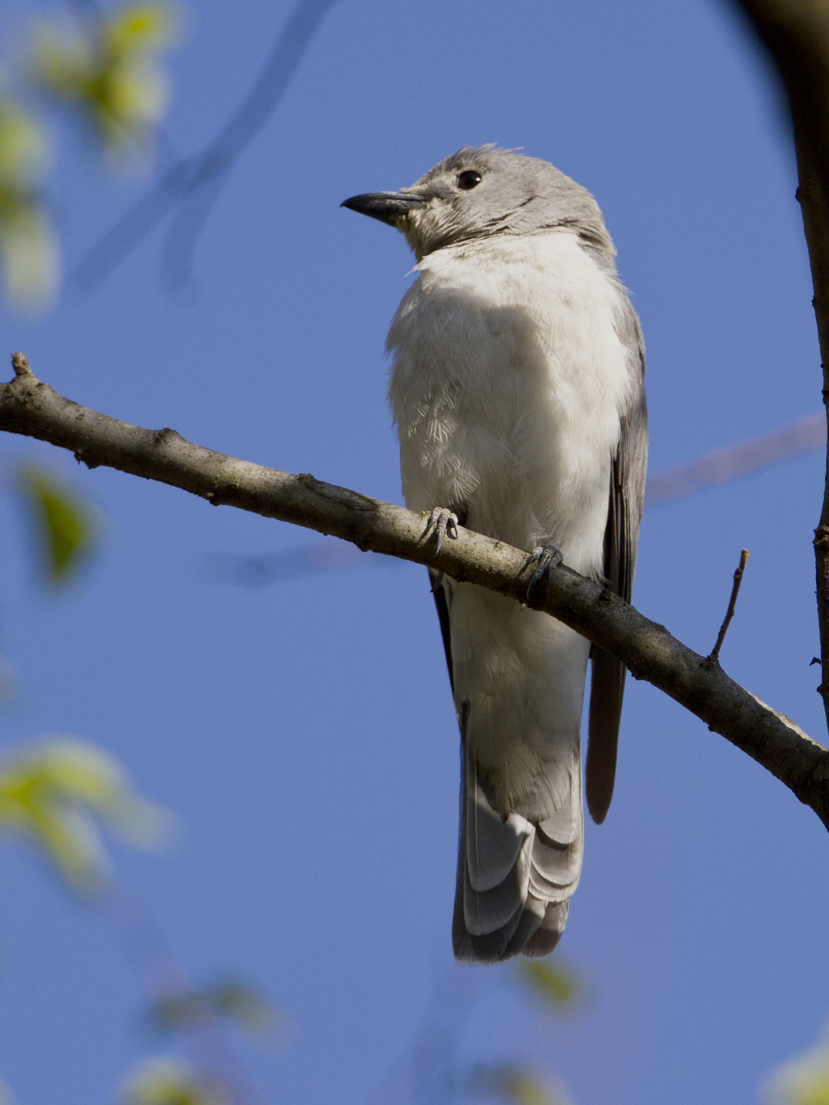 White-breasted Cuckooshrike in the Groenkloof Nature Reserve, Pretoria